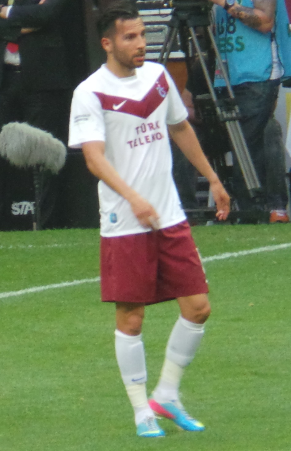 Yasin ÖZtekin @TT Arena